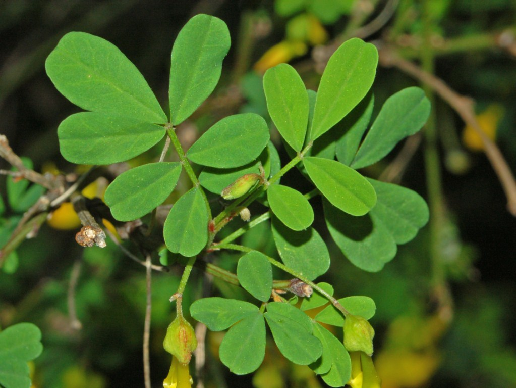 Hippocrepis emerus Genova, Italy